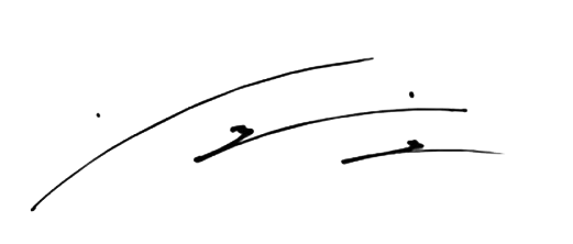 The signature of South Korean actor and singer, Lee Min-ho.